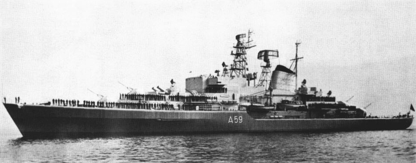 The West German training ship Deutschland (A59) at Pearl Harbor, Hawaii (USA). Deutschland circumnavigated the globe between 26 January and 29 June 1965.